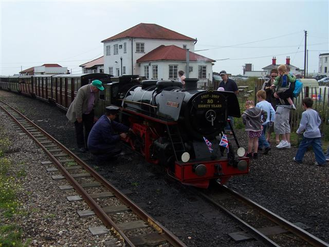 Black Prince at Dungeness